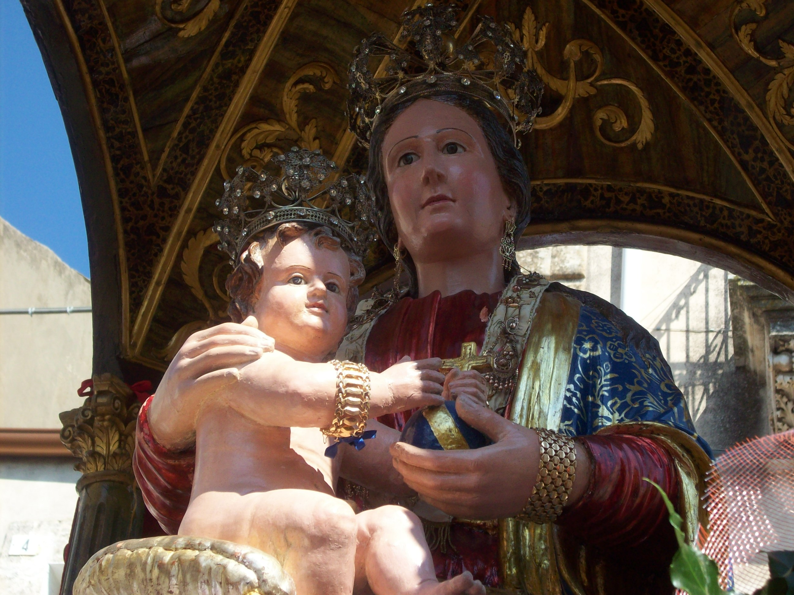 Procession of the "Festa della Madonna del bosco" (feast of our lady of the forest)in Buscemi (SR). The photo depicts the statue of the Madonna and baby Jesus in her arms.